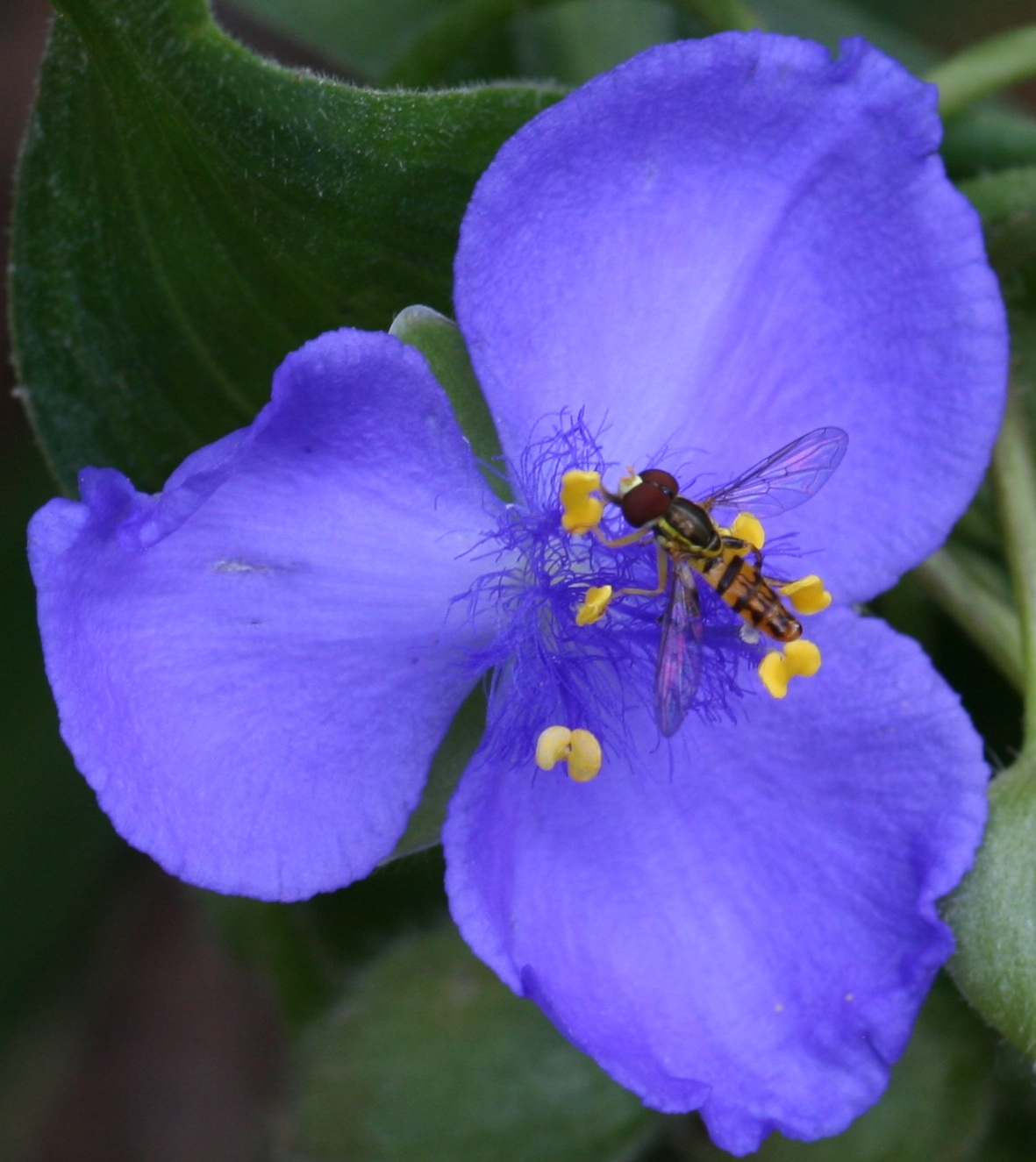 Flower of Tradescantia virginiana with Toxomerus (geminatus?) consuming pollen from the anthers. Photo was taken at 8:30 AM on Plummers Island in the C&O Canal Park in Montgomery County, Maryland.